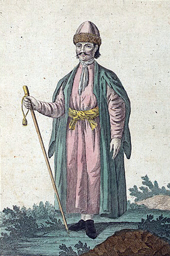 Armenian man.